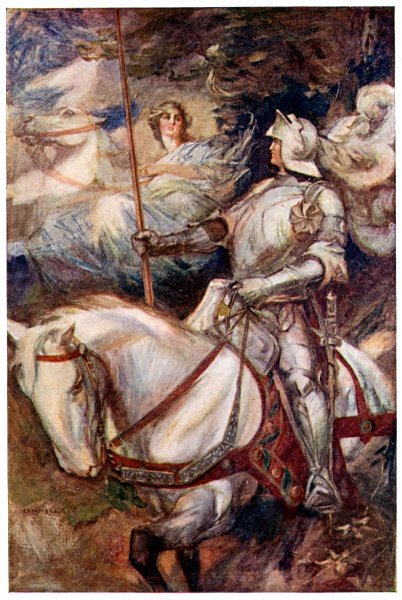 GRAELENT AND THE FAIRY-WOMAN - Illustration from Legends & Romances of Brittany by Lewis Spence, illustrated by W. Otway Cannell.